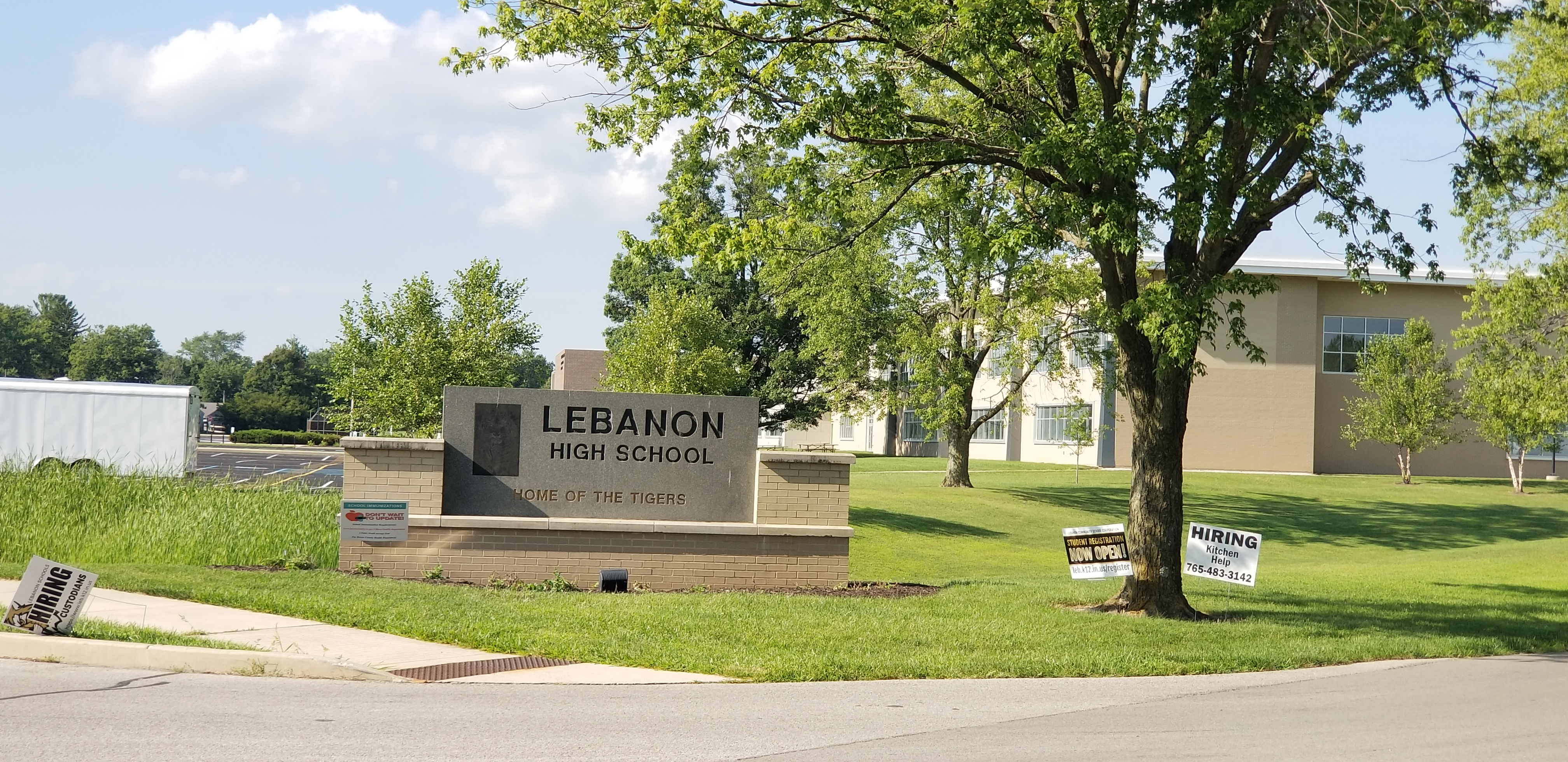 Lebanon High School sign